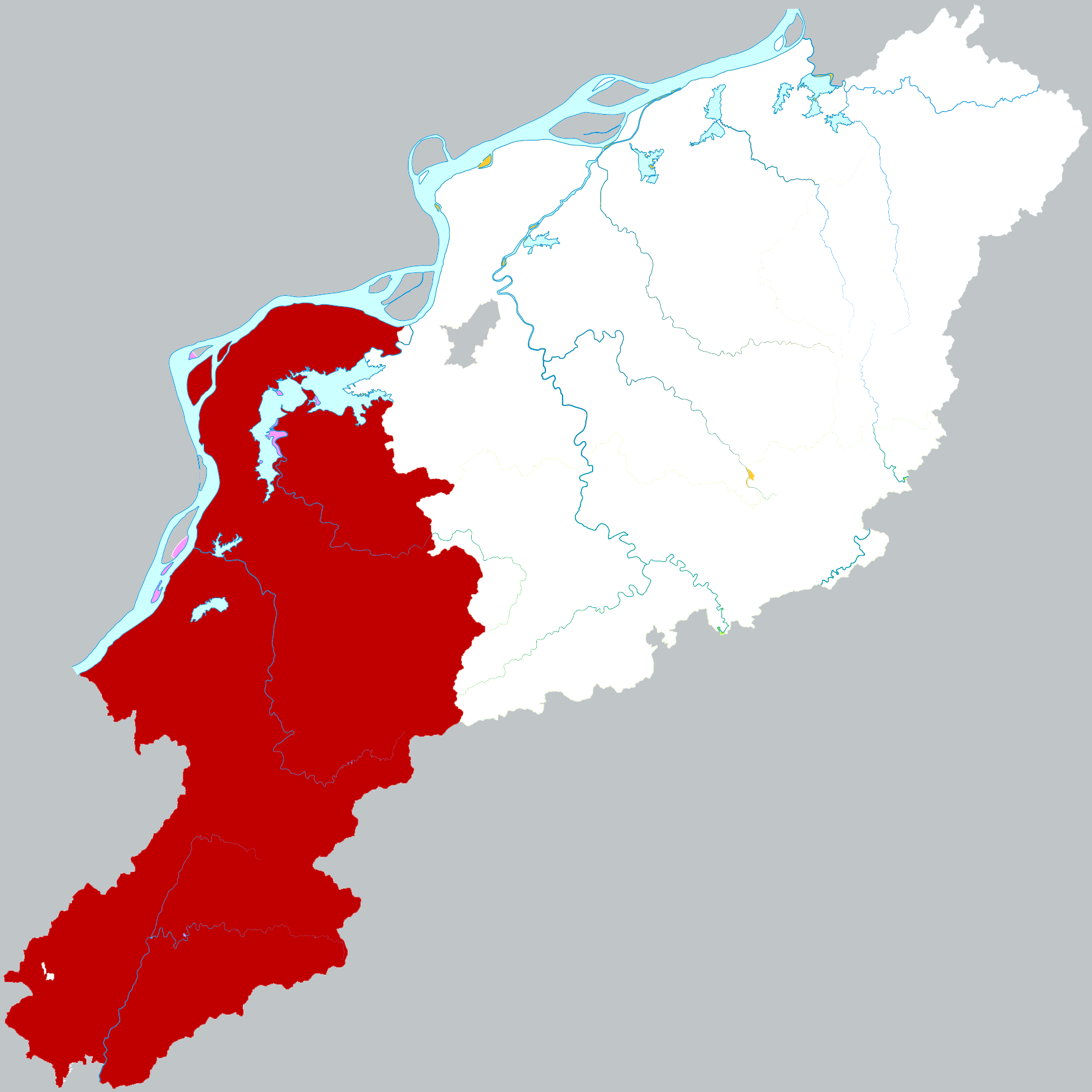 Location of Dongzhi county in Chizhou city, China